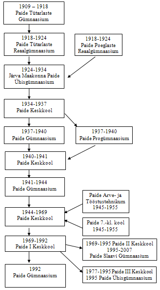 School history.